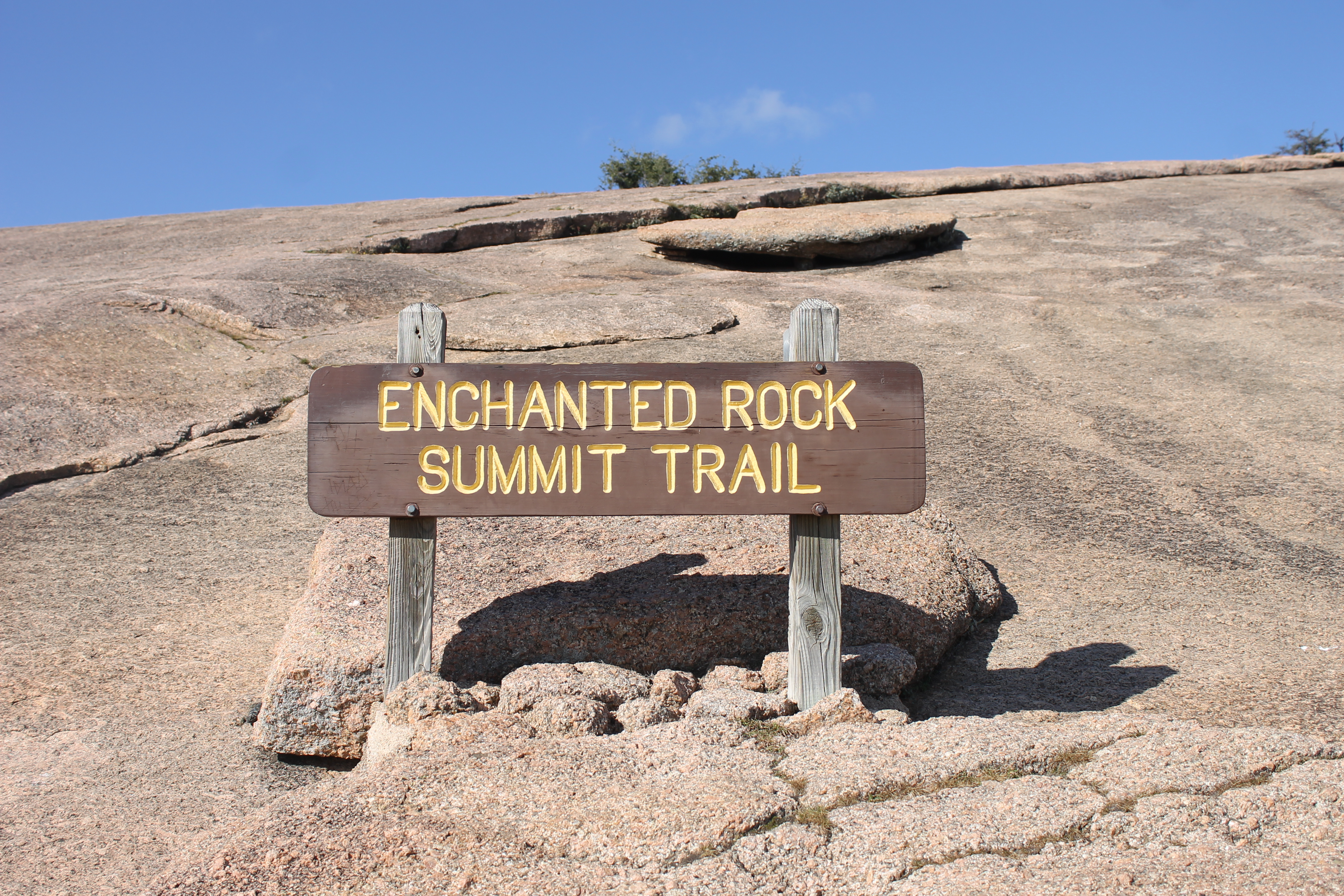 Summit Trail to top of Enchanted Rock north of Fredericksburg, TX